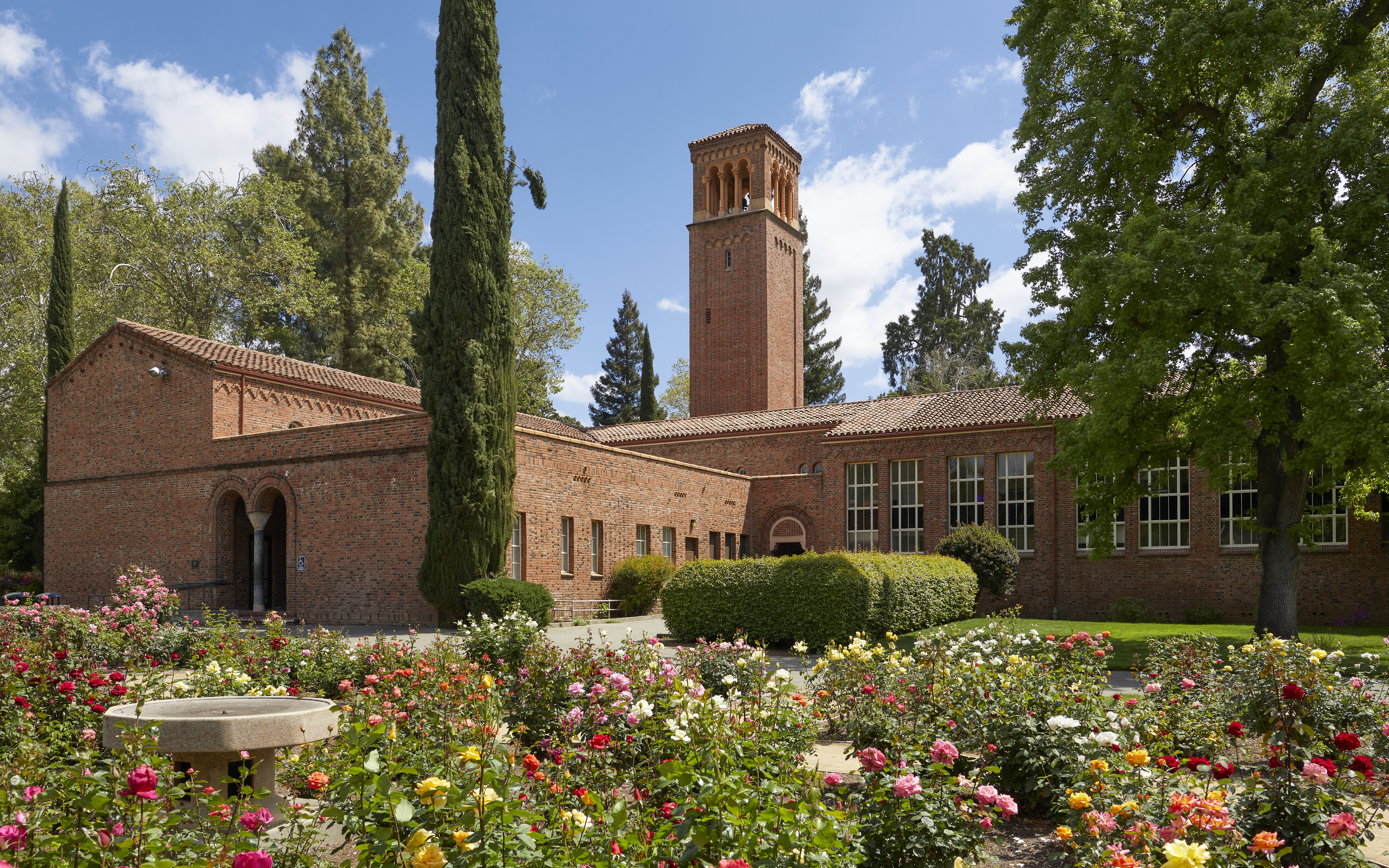 Trinity Hall on the Chico State campus, as seen from George Petersen Rose Garden on April 19, 2020. Trinity Hall was designed by Chester Cole, a Chico architect, and was completed in 1933. The rose garden was planted behind Trinity Hall in spring 1957 and is named after horticulturalist George F. Petersen who donated the roses.